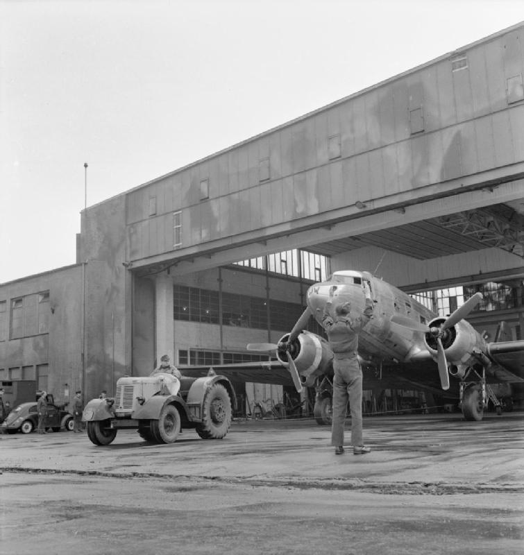 Berlin Airlift 1948-1949. A Douglas Dakota aircraft is towed out of a hangar at RAF Lubeck, Germany after maintenance by 5352 Wing.